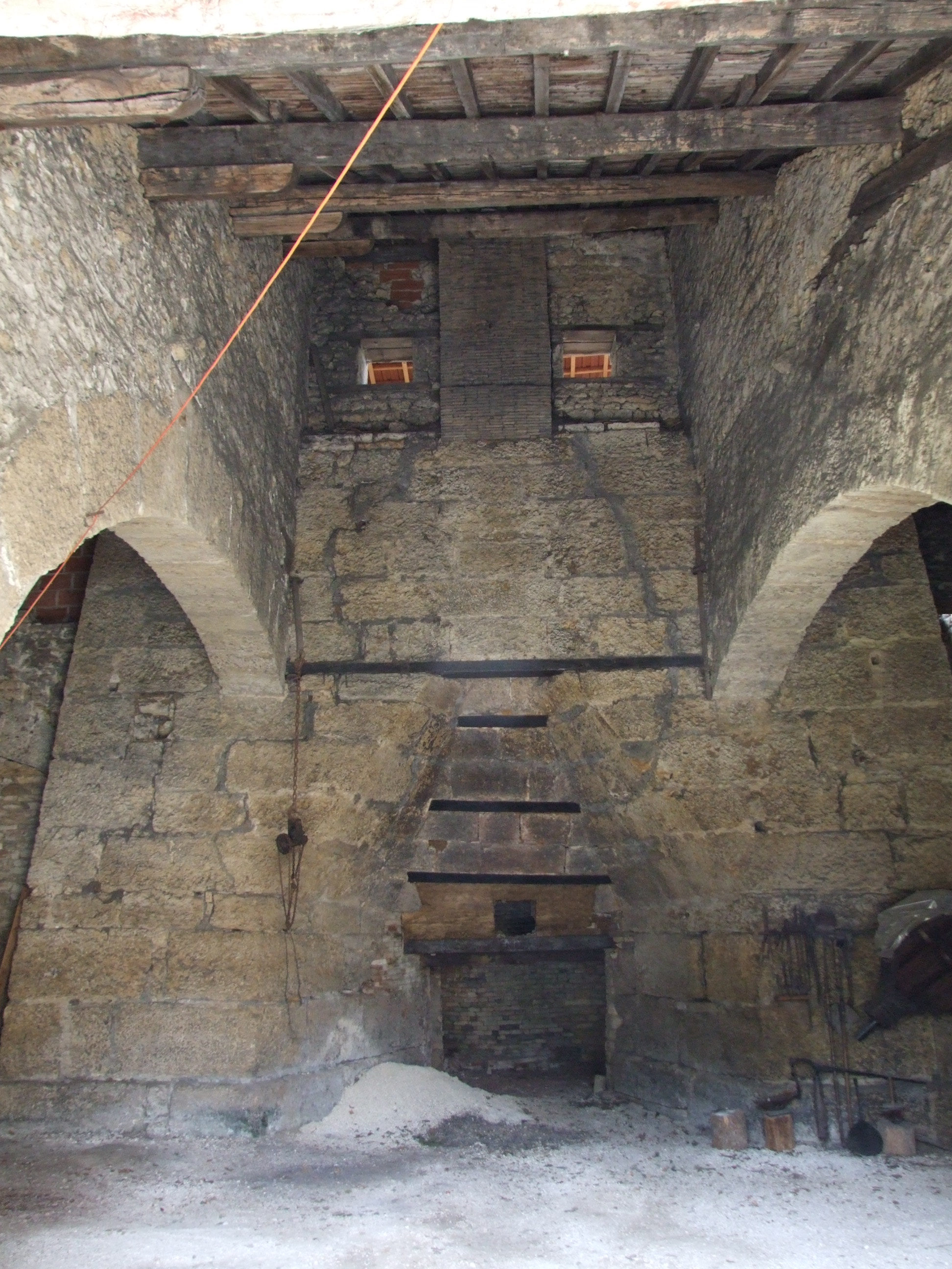 Blast furnace, Noiron-sur-Bèze, Côte-d'Or, Bourgogne, FRANCE